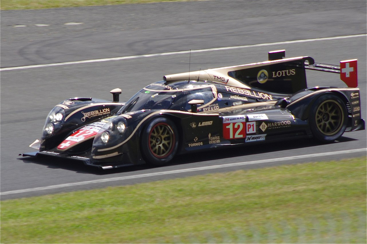 Rebellion Racing's Lola B12/60 Lotus Driven by Nick Heidfeld, Neel Jani and Nicolas Prost at Le Mans 2012.